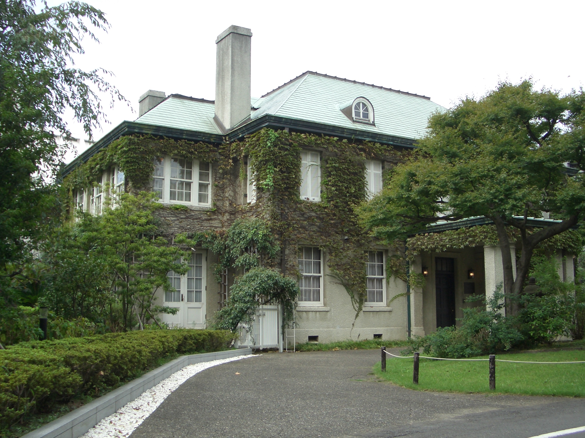 Reifsnider House (ライフスナイダー館) in Rikkyo (St. Paul's) University (立教大学)